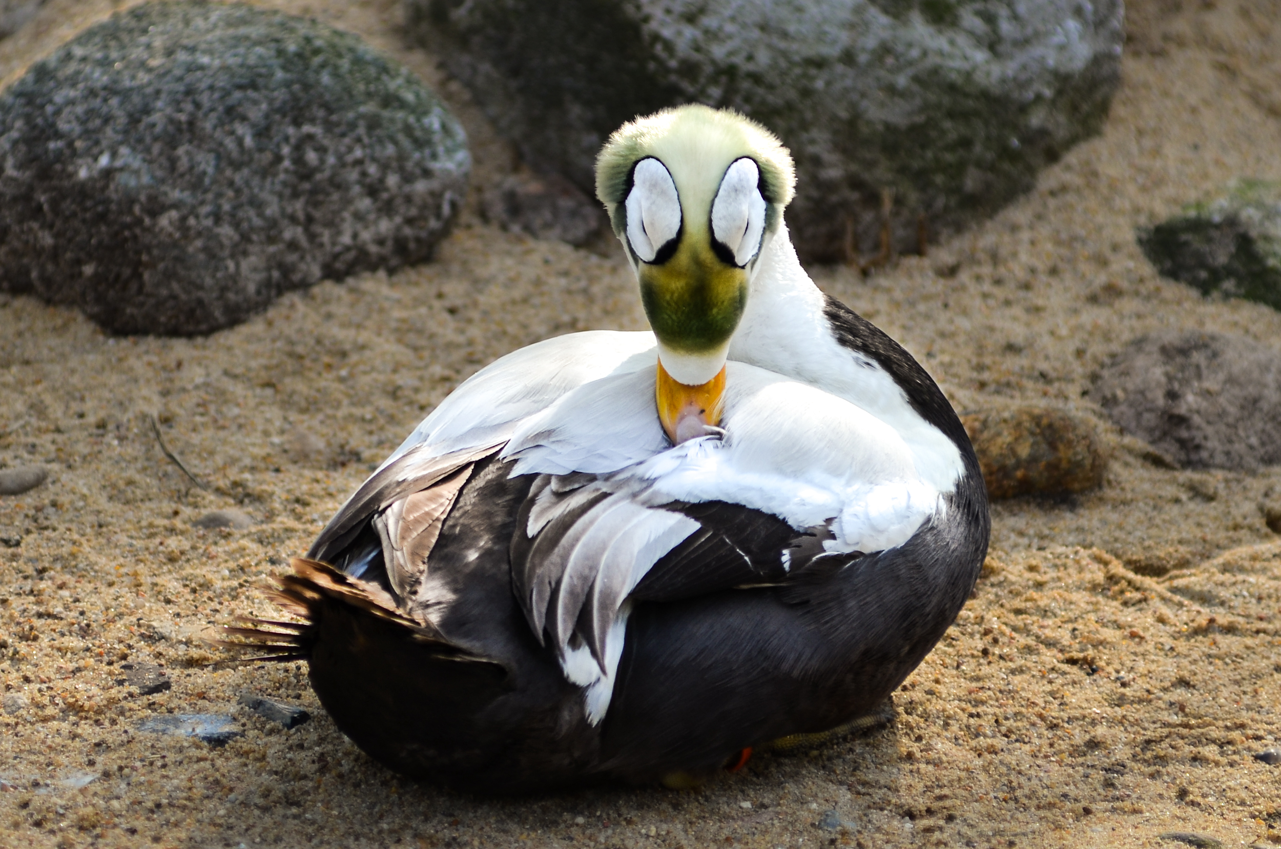 The drawing of the head plumage of the male Spectacled Eider (Somateria fischeri) at Weltvogelpark Walsrode (Walsrode Bird Park, Germany)